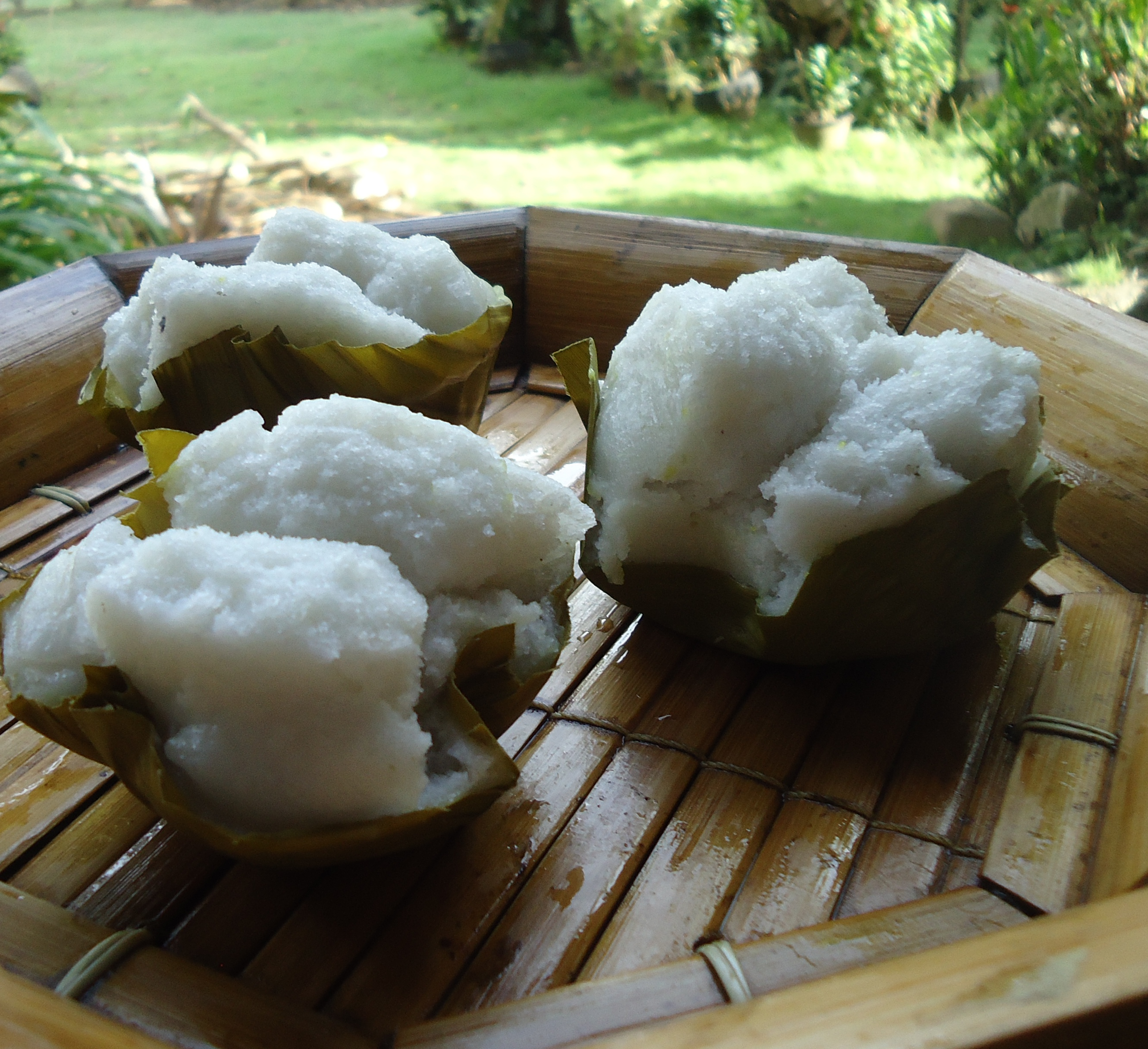 Traditionally baked Puto (Filipino rice cake) wrapped in banana leaves.